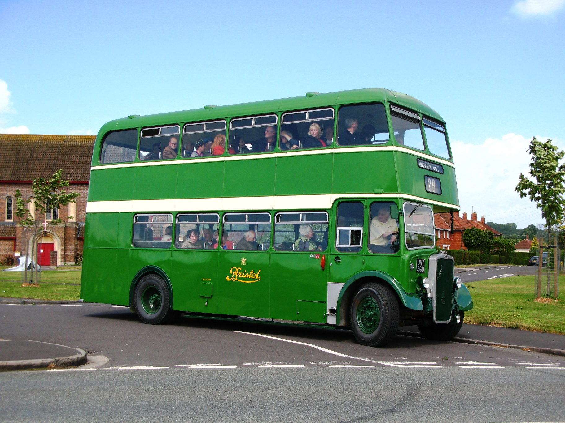 UHY 360 is a Bristol KSW6B bus. It was new to Bristol Tramways in 1955 and operated on city services as number C8320 until 1971 when it was withdrawn. It is pictured at Sea Mills in Bristol during an enthusiasts' tour.